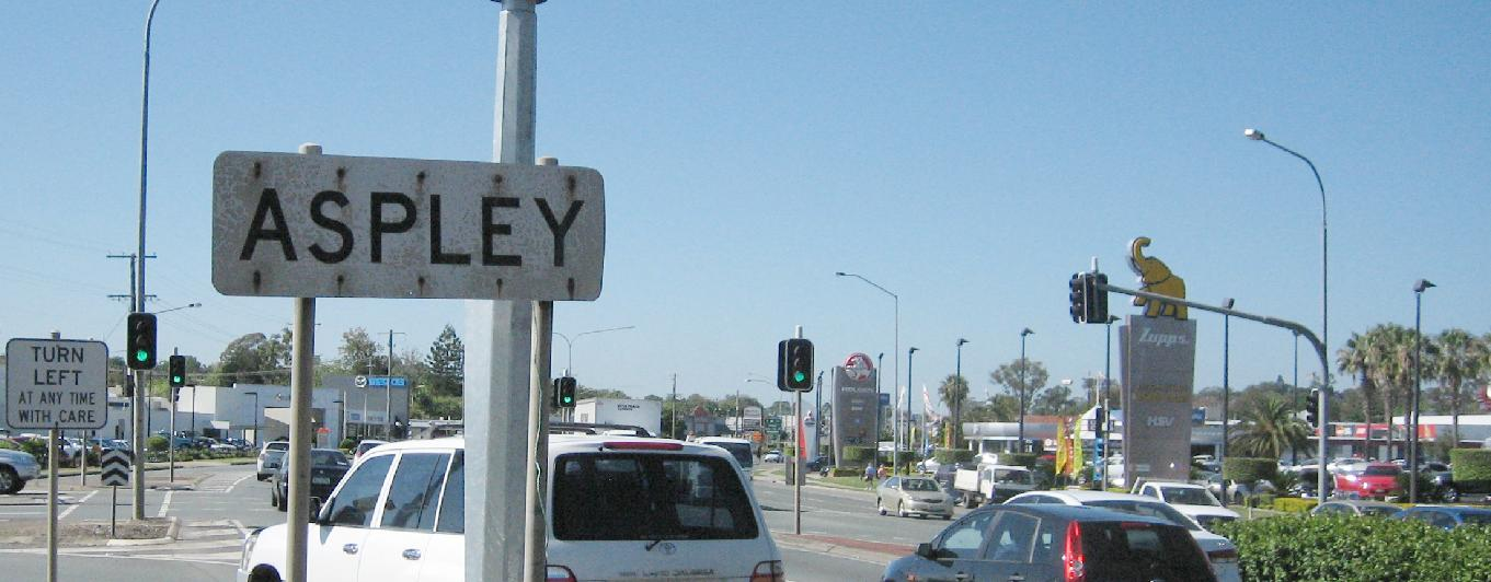 Gympie Road in Aspley, Queensland.